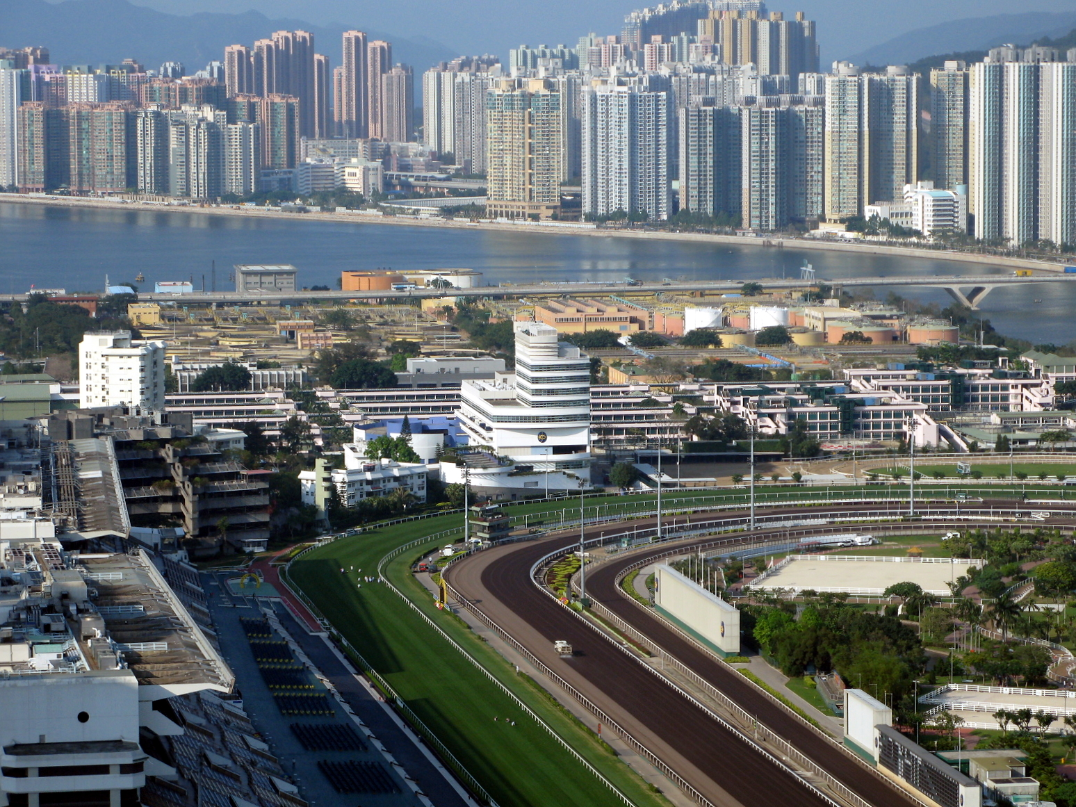 Sha Tin Sewage Treatment Works 沙田污水處理廠